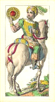 Horse of diamonds of the playing cards deck of Ferdinando Gumppemberg piacentinas cards.